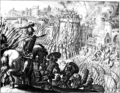 Nebuzaradan_carries_into_exile_the_remaining_people_in_the_city